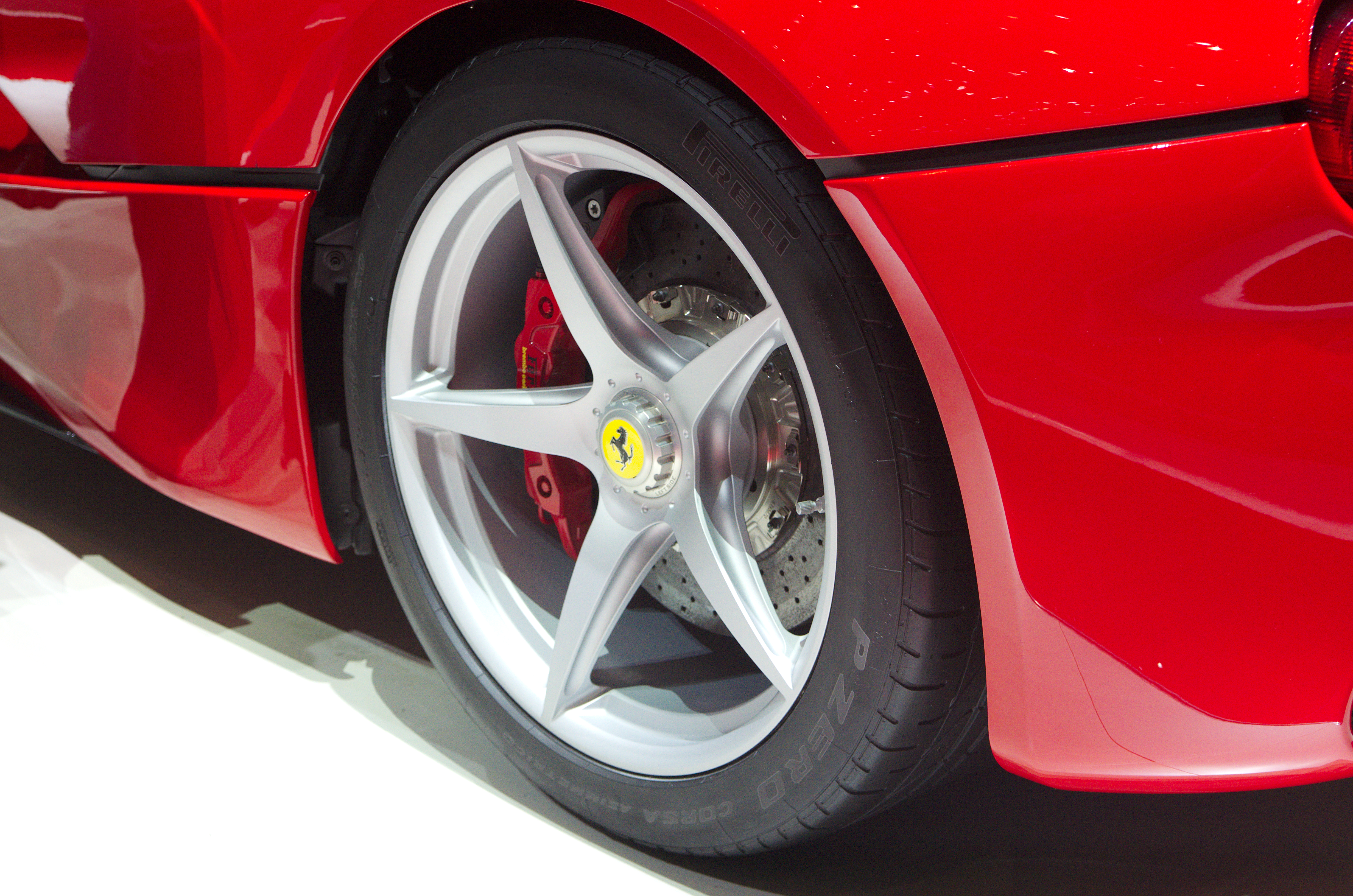 Geneva MotorShow 2013 - Ferrari LaFerrari rear wheel